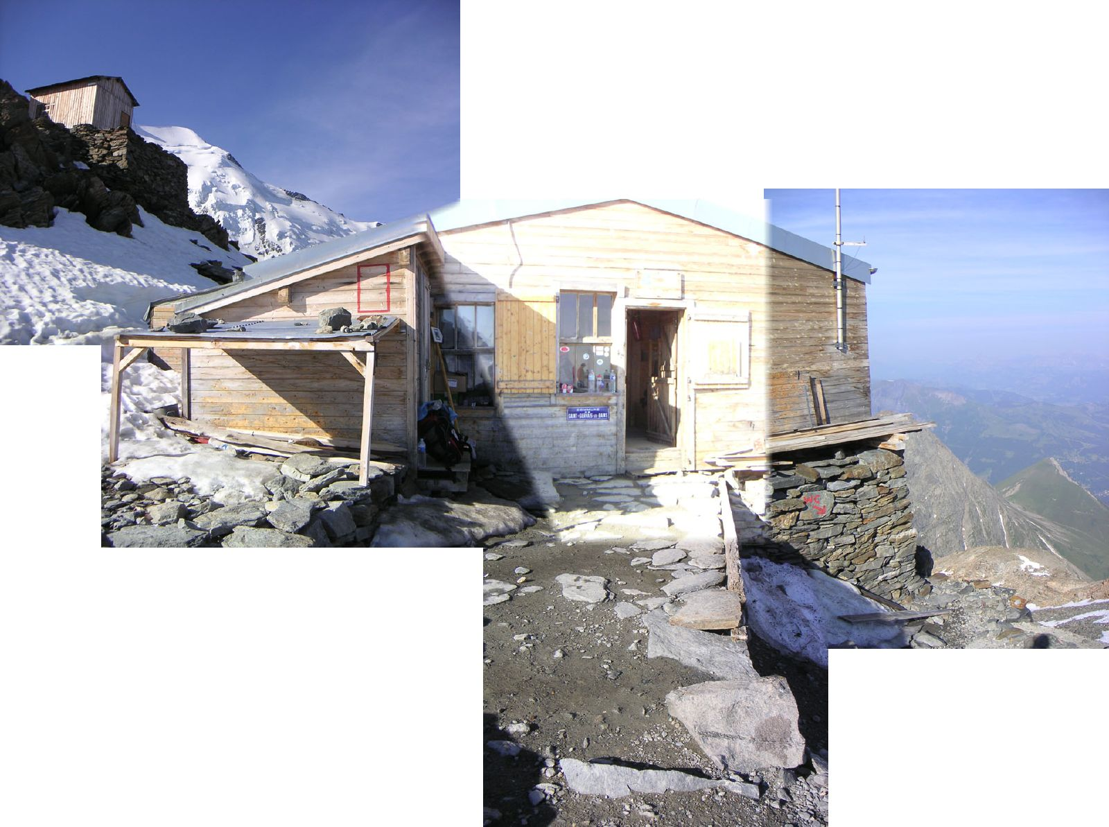 The old (destructed now) alpine huts of Tête Rousse